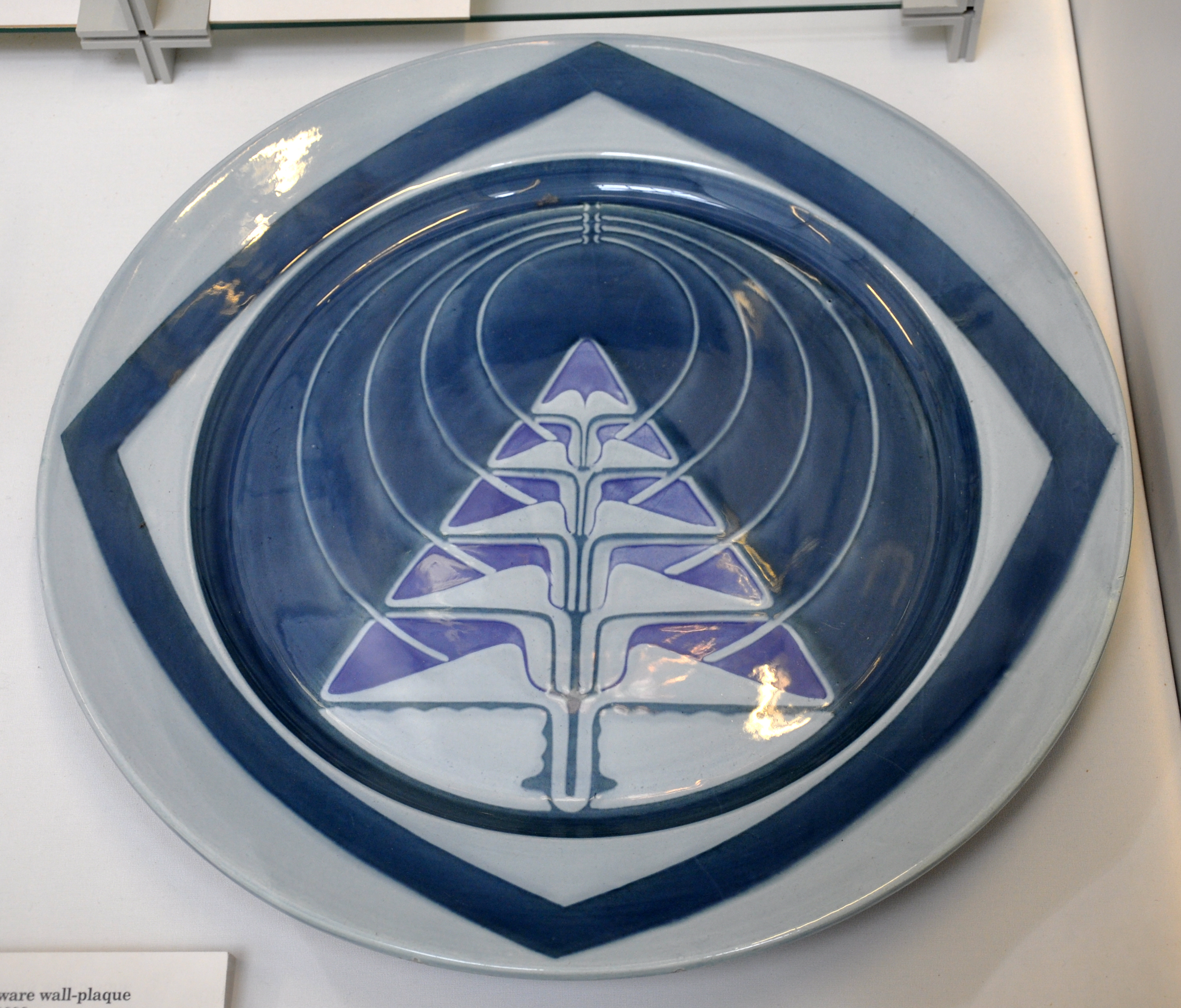 British Museum reference1999,0404.1Detailed descriptionWall plaque, earthenware with stencilled decoration of a stylised tree in deep blue and lilac on a grey ground. By Christian Neureuther, 1906. Kunstabteilung Wachtersbach.SizeDiameter: 35.5 cmLocationRoom 48